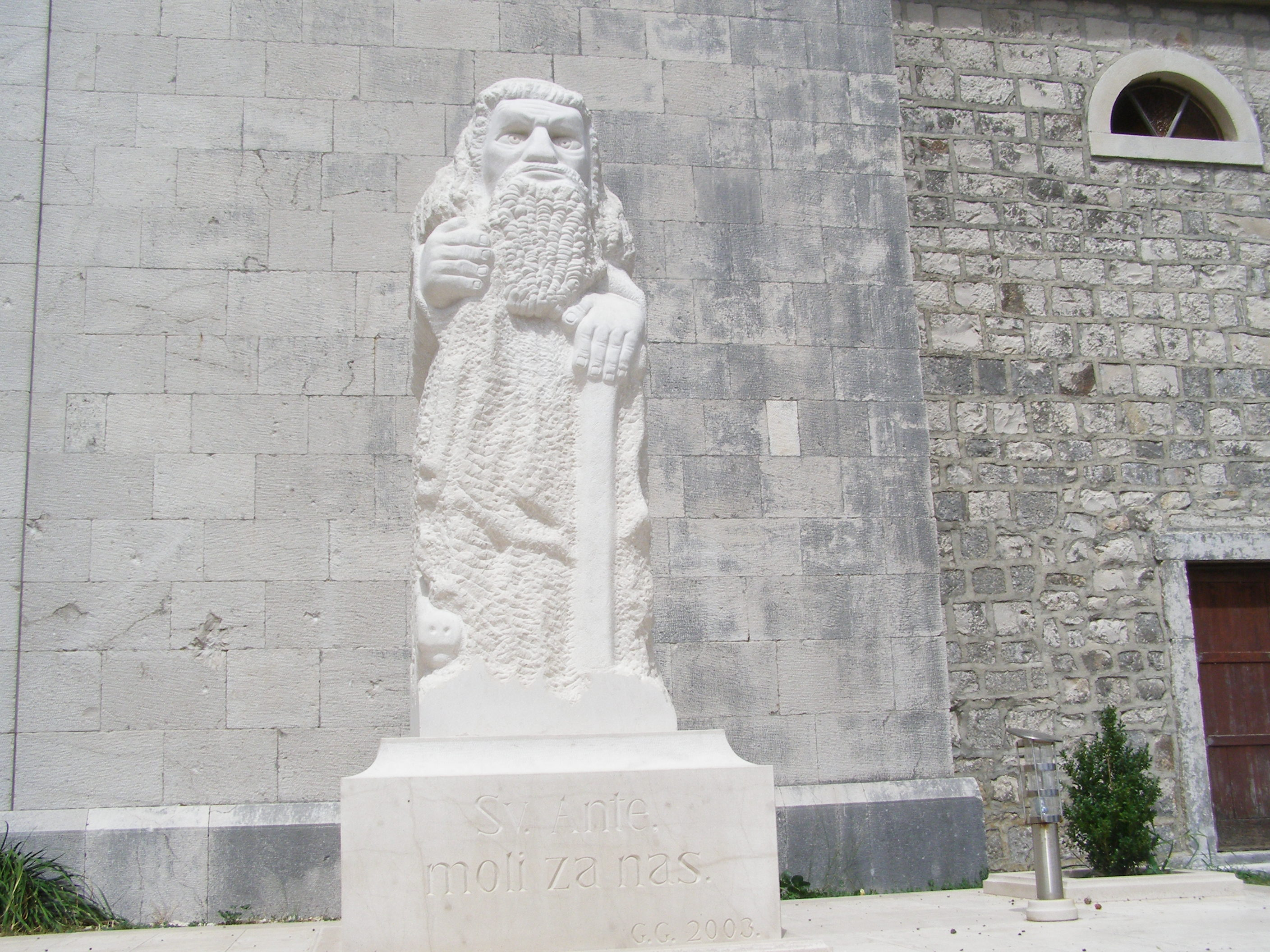 Saint Anthony the Great, Novo Selo, Brac, Croatia